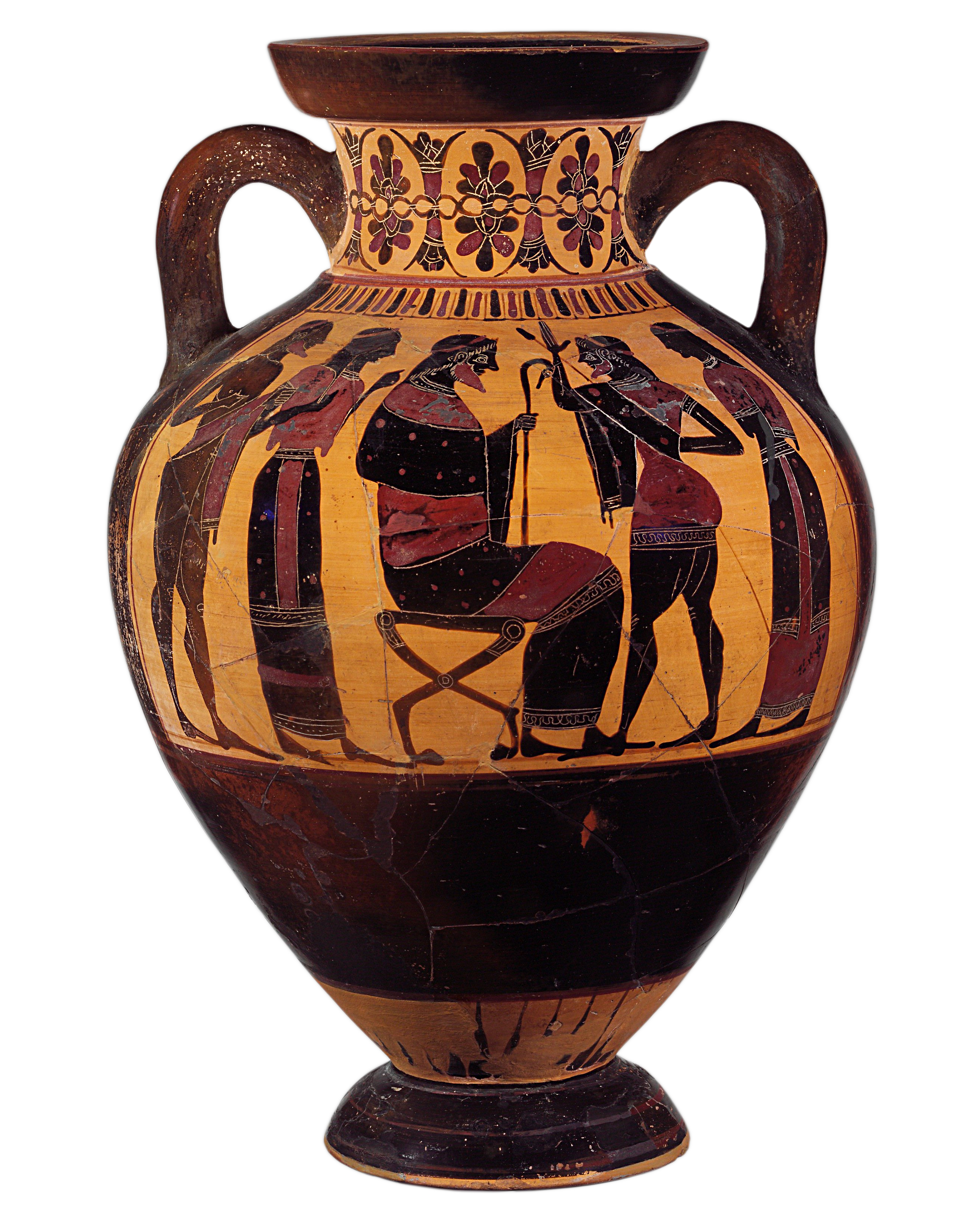 Attic Greek Black-figure Neck Amphora attributed to the Princeton Painter, ca. 550–540 BCE depicting an elderly king or man seated between two men and two women. The original image was uploaded by user:Pharos from the Metropolitan Museum of Art public domain image collection online. It is published with the following description: Obverse, Athena at altar, flautist, and woman; Reverse, seated man between 2 men and 2 women. This vase is of considerable importance, for although it is not an official prize amphora, the decoration on the obverse refers to numerous aspects of the Panathenaic festival. The image of Athena in the center is that of Athena Polias, the goddess of the Akropolis who invariably occupies the obverse of the Panathenaic prize vases. In front of her is a burning altar, and behind it a flute-player. The Panathenaic games included not only athletic but also musical competitions, to which this figure most probably refers. The woman on the right carries on her head a stiff horizontal object that seems to represent the peplos, the garment for Athena's image that was renewed every four years. It is about to be unfolded and draped on the statue. The subject on the reverse is difficult to elucidate. The seated man is characterized as a god or king by his scepter. If he bears some relation to the depiction on the reverse, he may be Zeus awaiting the birth—from his head—of Athena. This version of the image has been slightly cropped, resized for greater dpi, white balanced, and the background has been changed to solid white.